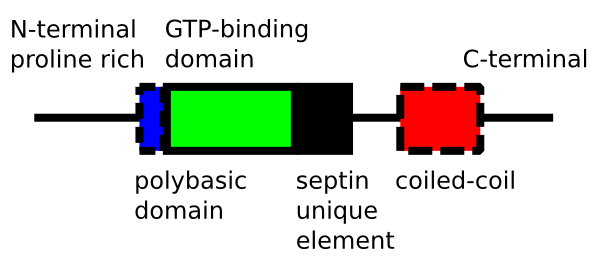 schematic domain structure drawing of septin molecules